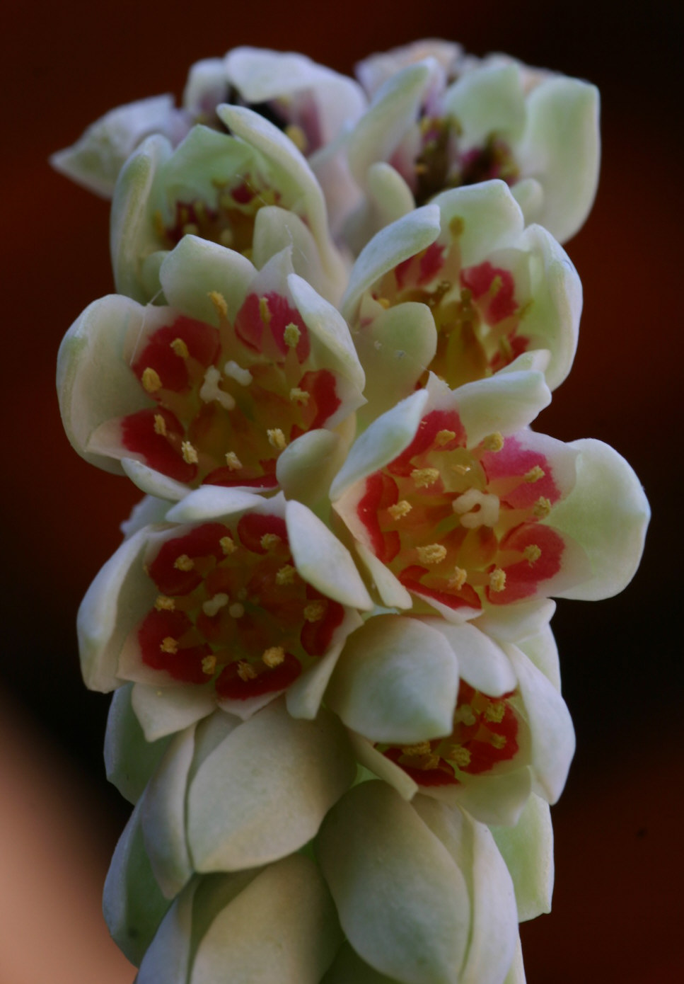 Photo of a Crassulaceae's flower.